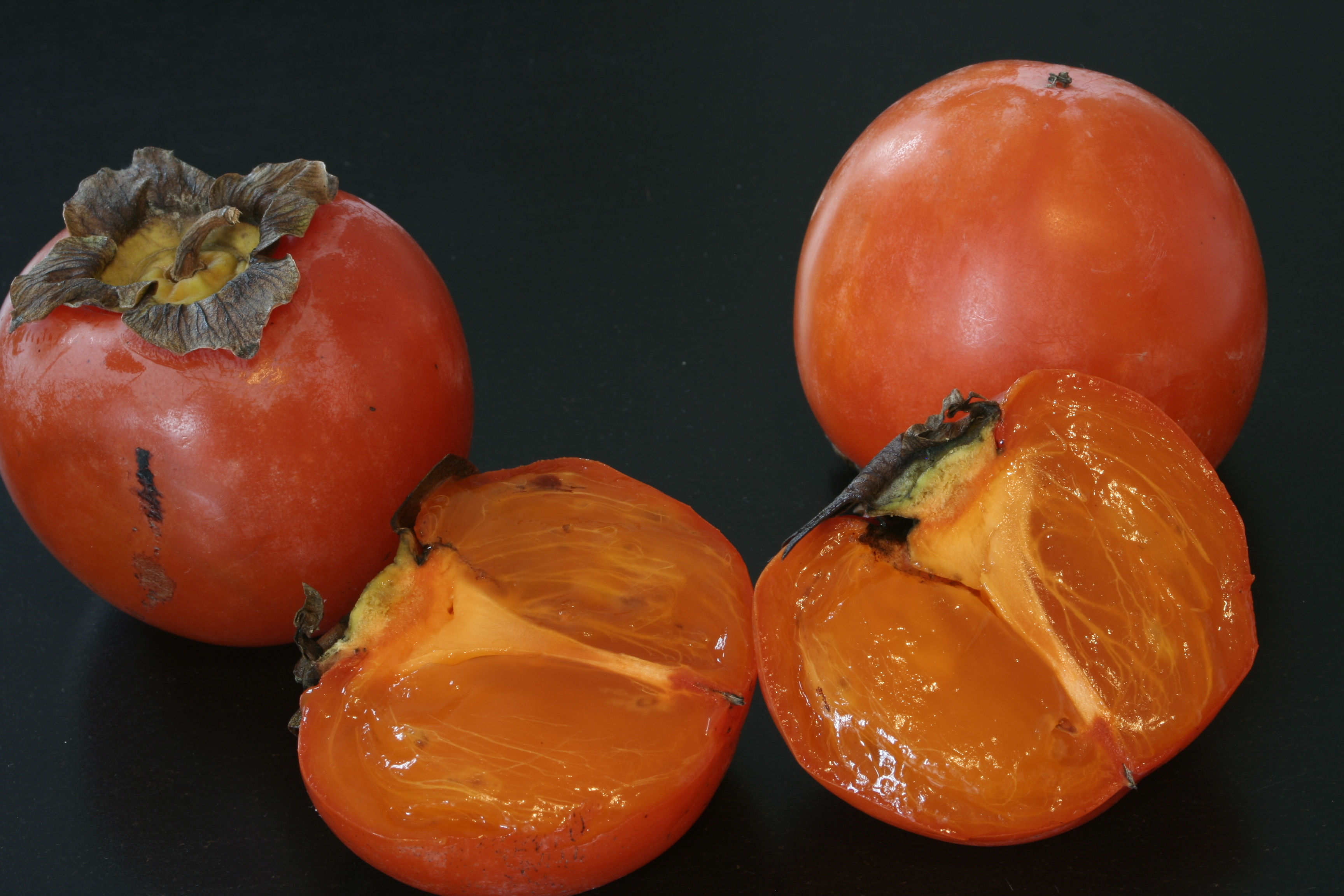 Mature Kaki fruits